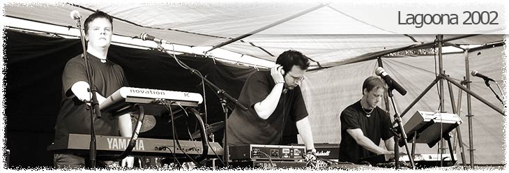 From Image:Lagoona-Live 2002.jpg, originally uploaded by User:Andreasviklund.